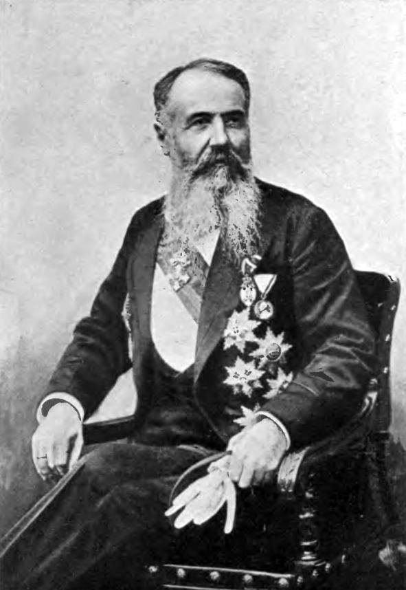 Serbian politician Nikola P. Pašic.